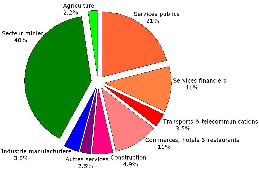 Botswana GDP spread, by sector (2005).Data source: Bank of Botswana